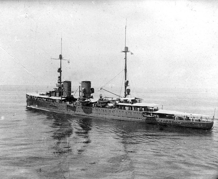 Steamship Hr. Ms. "Java"